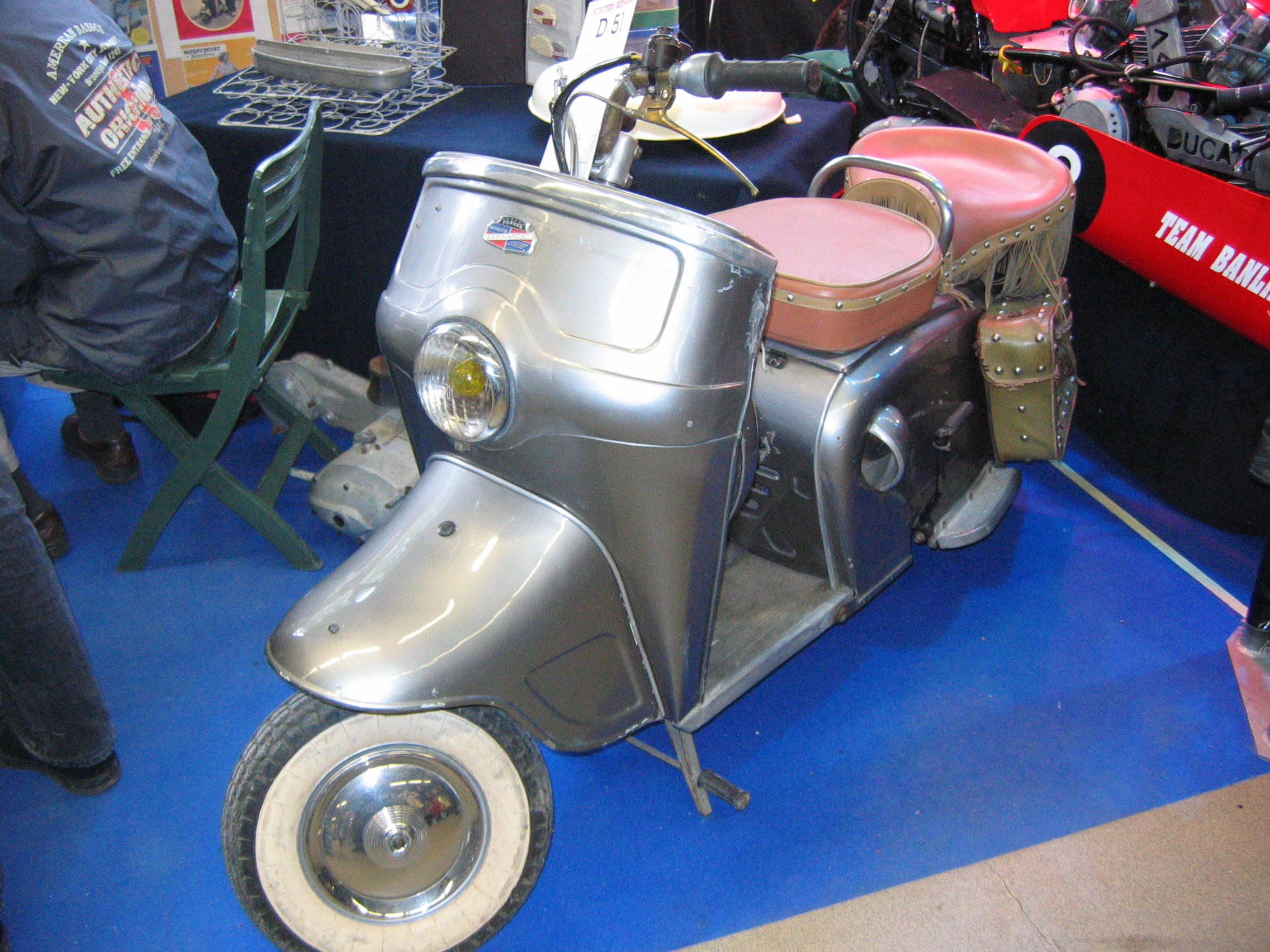 French Scooter Bernardet D51, 250cc, year 1952 Picture : Gérard Delafond